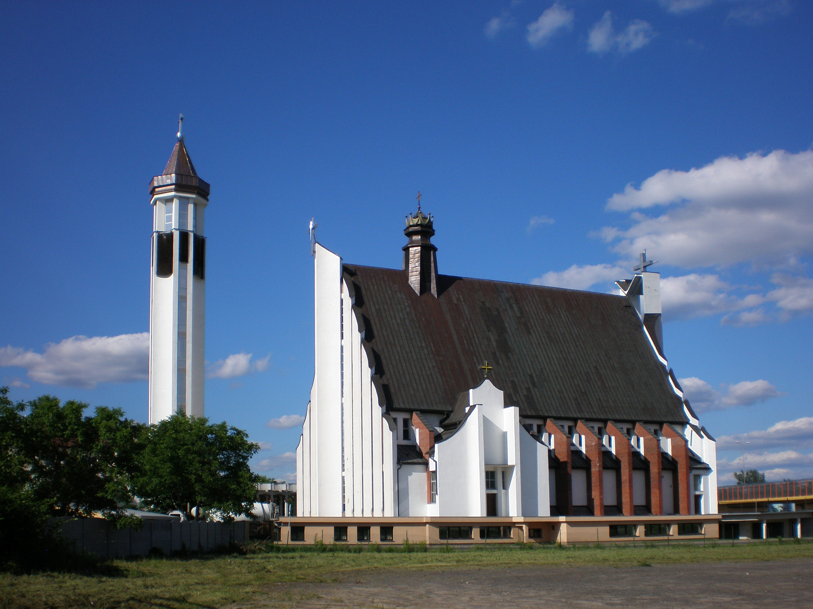 Our Lady Teacher of Youth Sanctuary, Warsaw